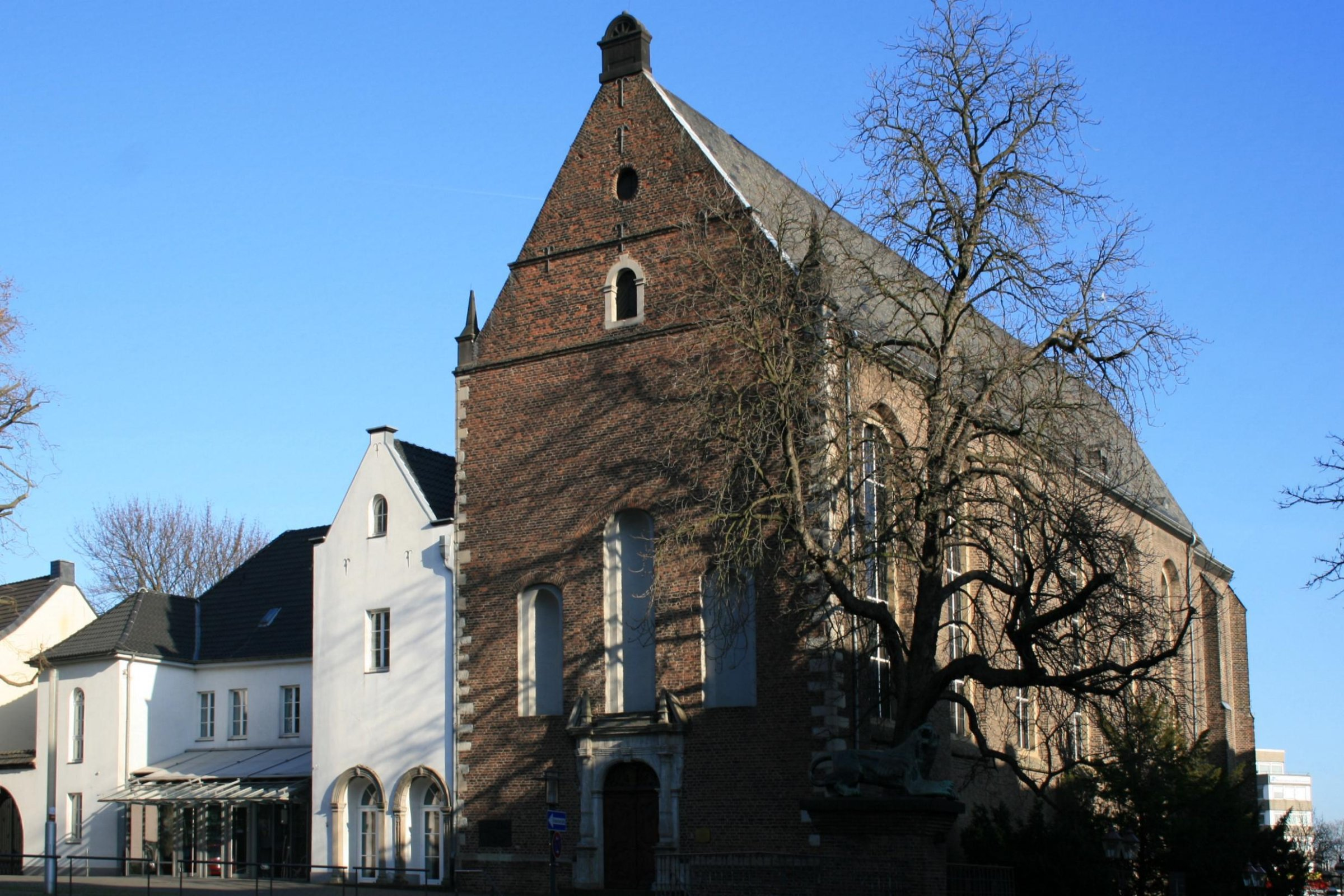 This is a photograph of an architectural monument.